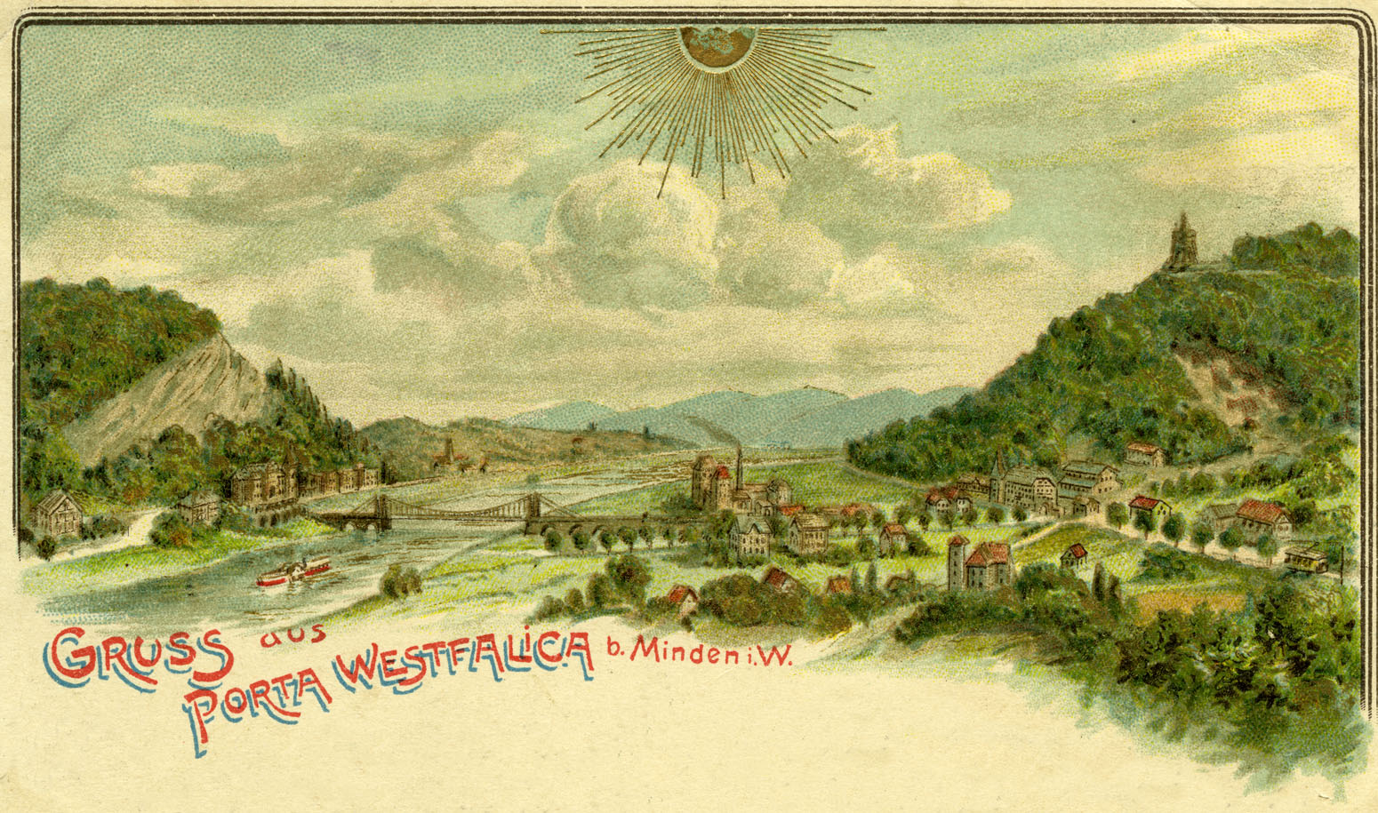 Scan of part of an old German postcard sent in 1904, showing Porta Westfalica.